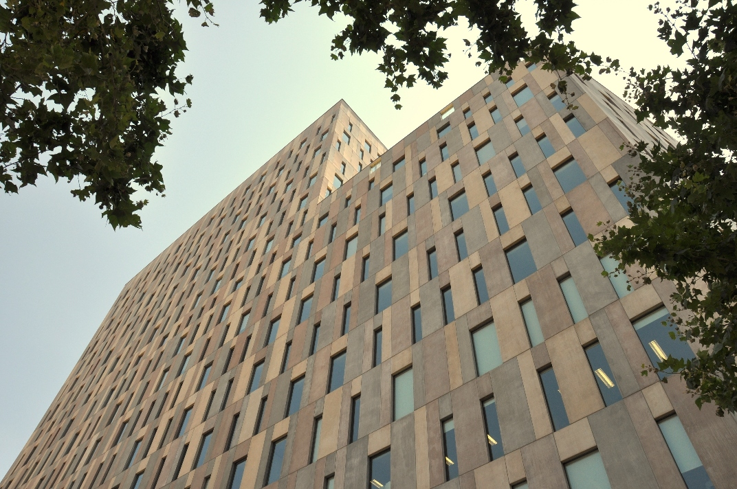 The SELLBYTEL site in Barcelona, Diagonal